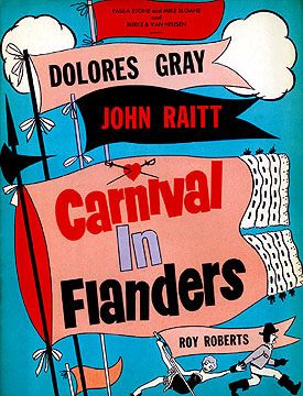 Original poster for the 1954 musical Carnival in Flanders